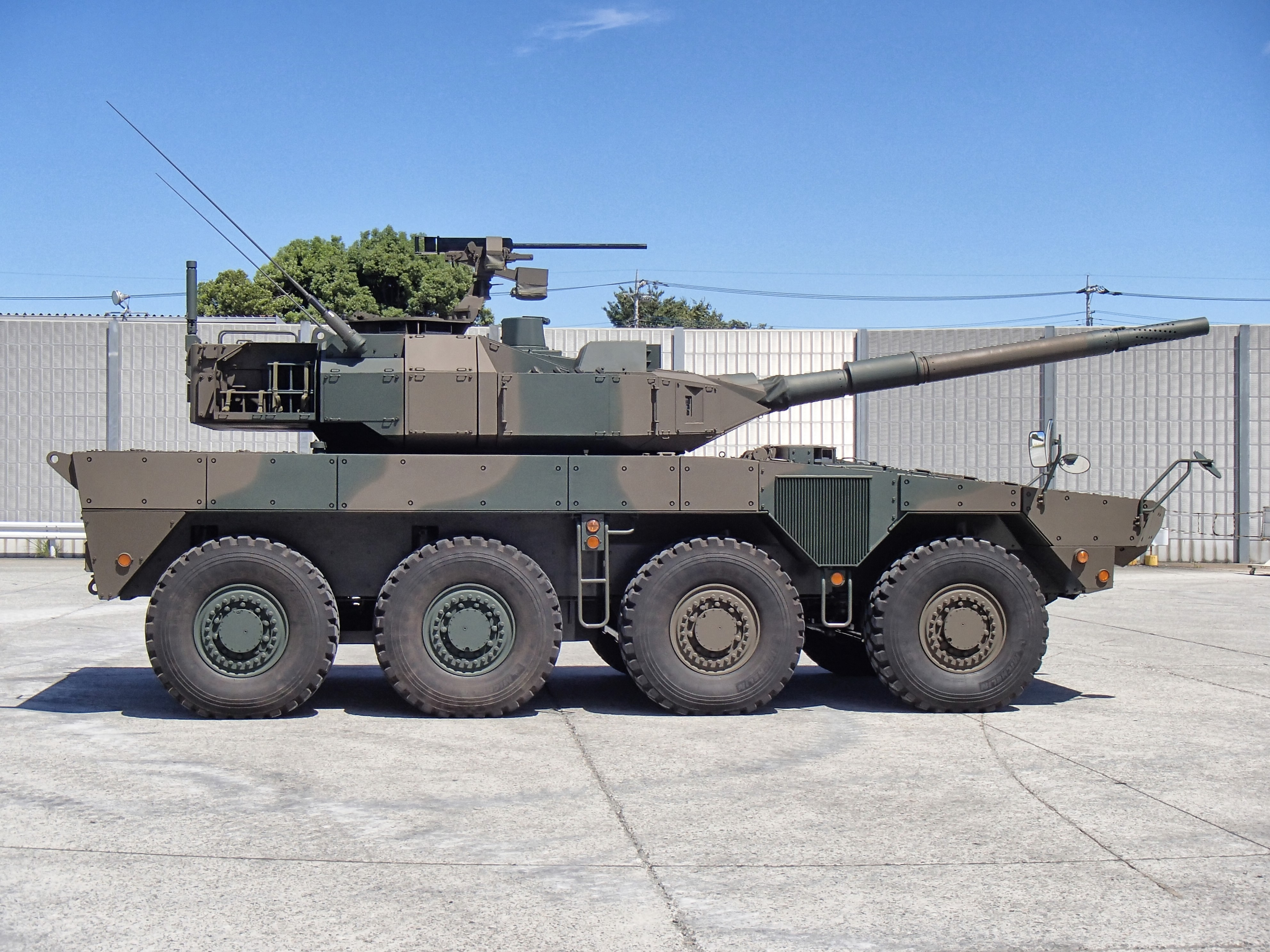 Title 0.JPG Album 機動戦闘車(MCV:Maneuver Combat Vehicle) Photographs by the Japan Ground Self-Defense Force 機動戦闘車